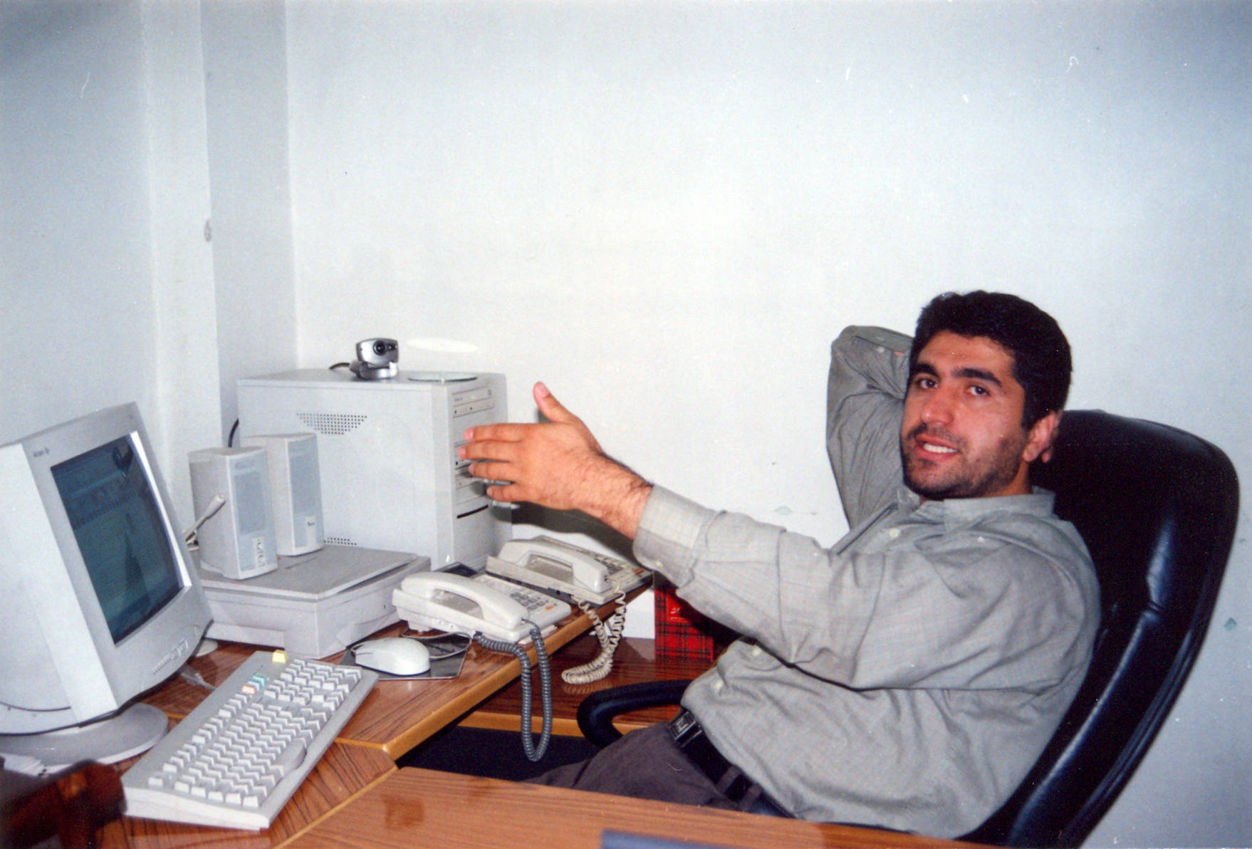 Alireza Nasiri as general director of Isargaran Department at University of Tehran